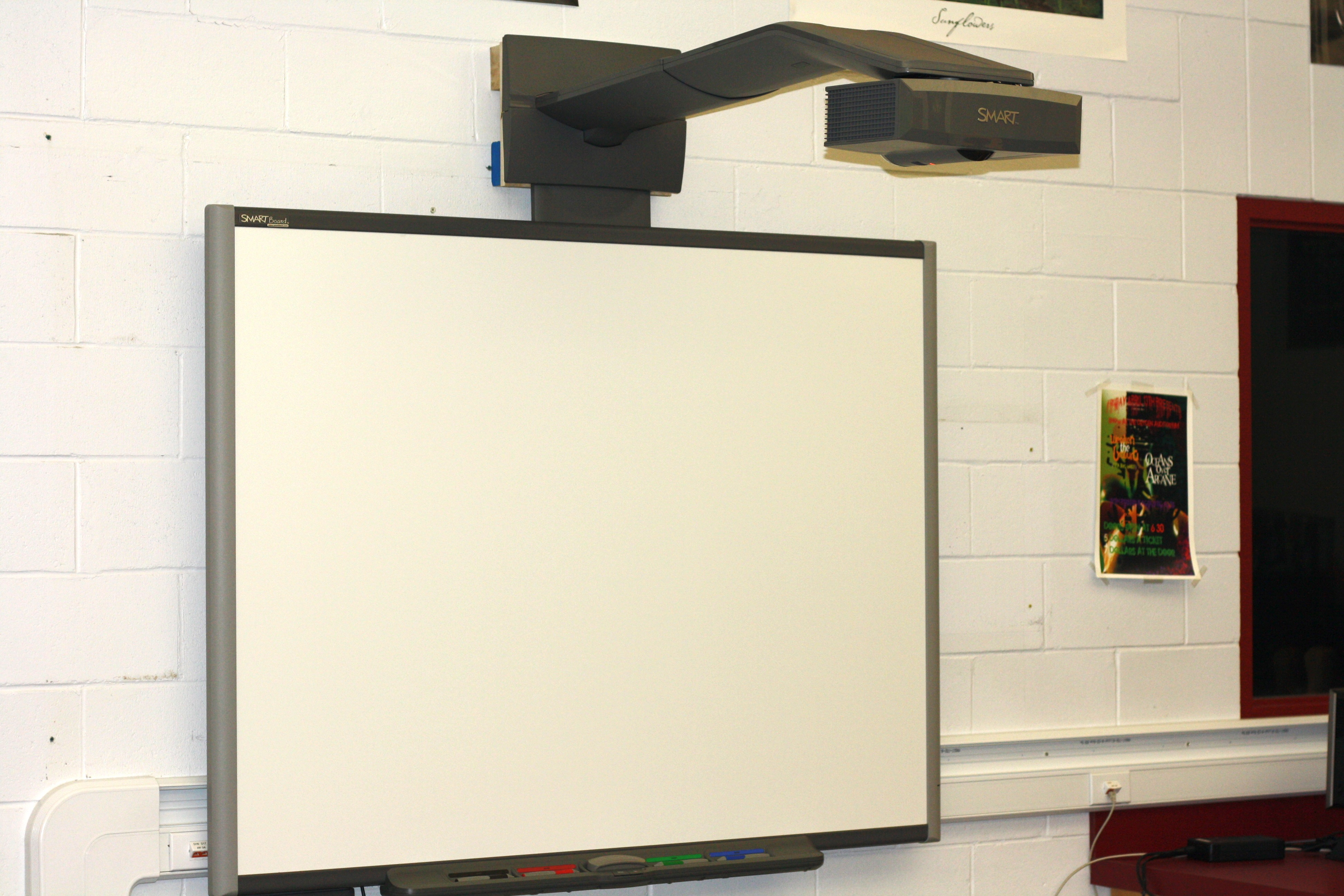 A Smartboard (SB680)